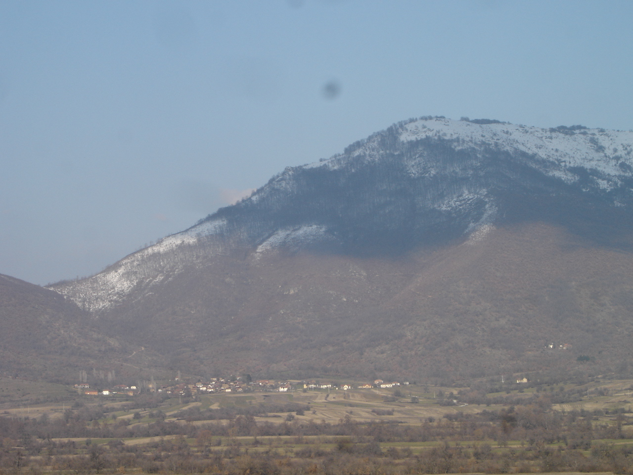 village of Gostirazhni in Dolneni Municipality, near Prilep, Macedonia